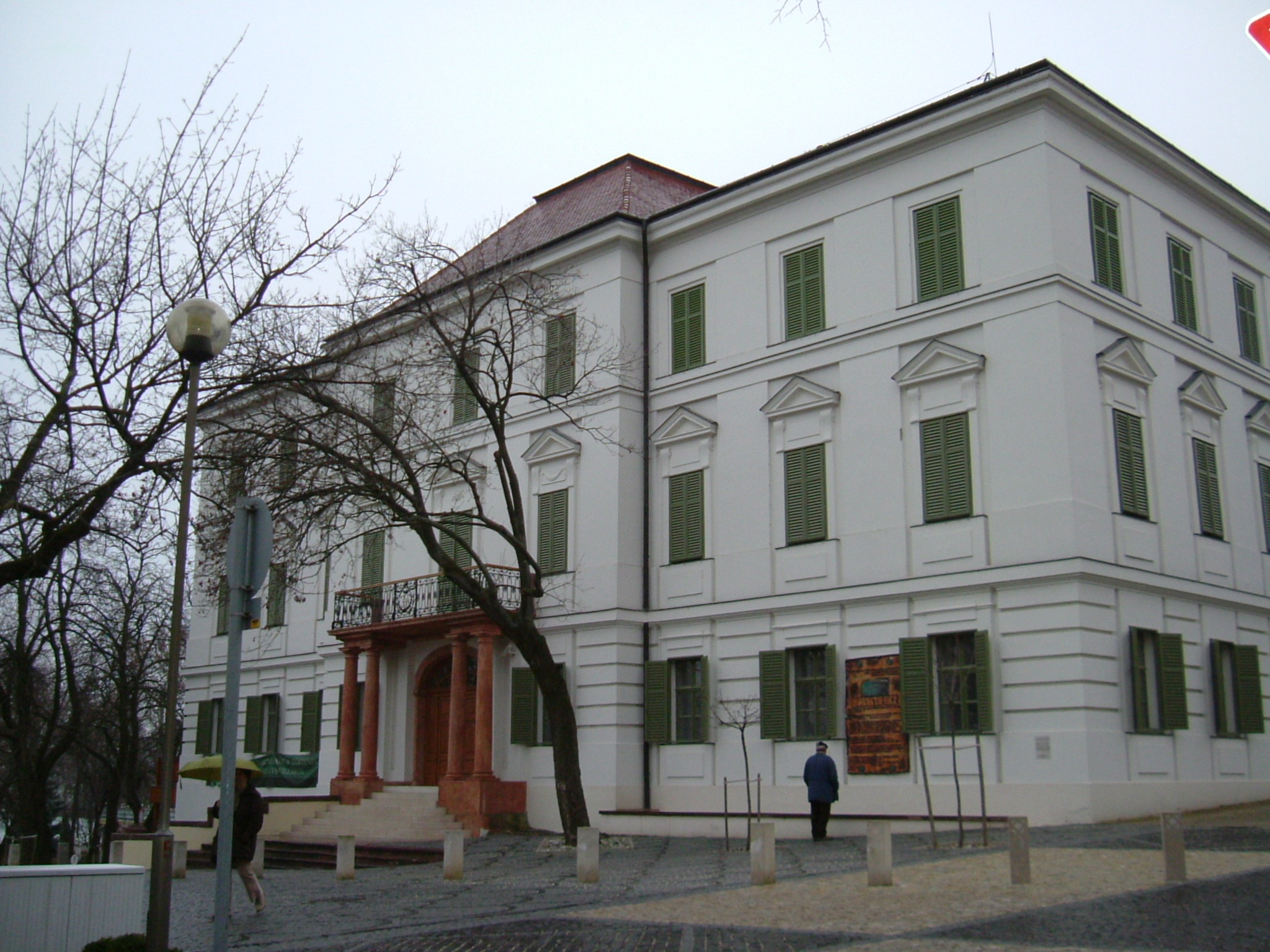 Balatonfüred - Hungary. Horváth house